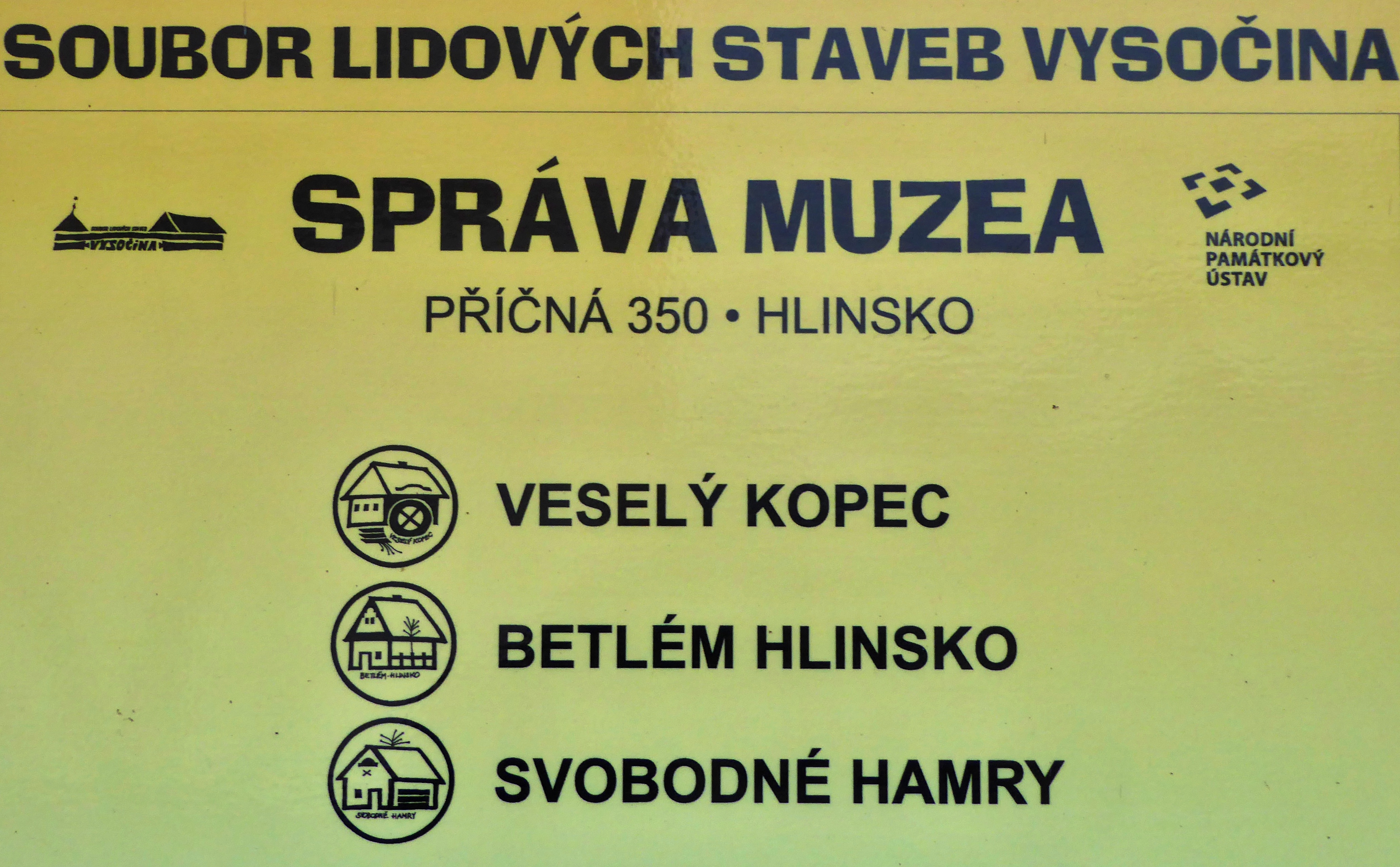 Information board at the facade of the building of a museum's management in the town Hlinsko, Příčná street No. 350, between 1997 and 2018 under the title Set of Folk Buildings Vysočina. The Set of Folk Buildings Highland was removed from the administration of the National Monument Institute and under named Open-air Museum Highland is with effect from 11 December 2018 part of the National Open-air Museum in the Czech Republic. The administration includes cultural monuments and collection objects of ethnographic character in the expositions of the open-air museum Veselý Kopec, of the monument reserve Betlém in town Hlinsko and also a object of a village monument zone Svobodné Hamry. Photo-location: Czechia, Pardubice Region, town Hlinsko.